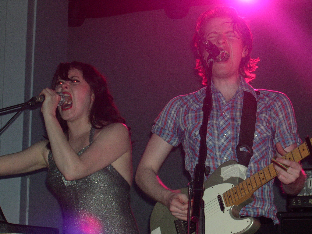 Adele and Scott from S&D, live in 2005 in Leeds.